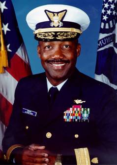 Errol M. Brown, retired rear admiral of the United States Coast Guard and the first African American promoted to flag rank in the USCG